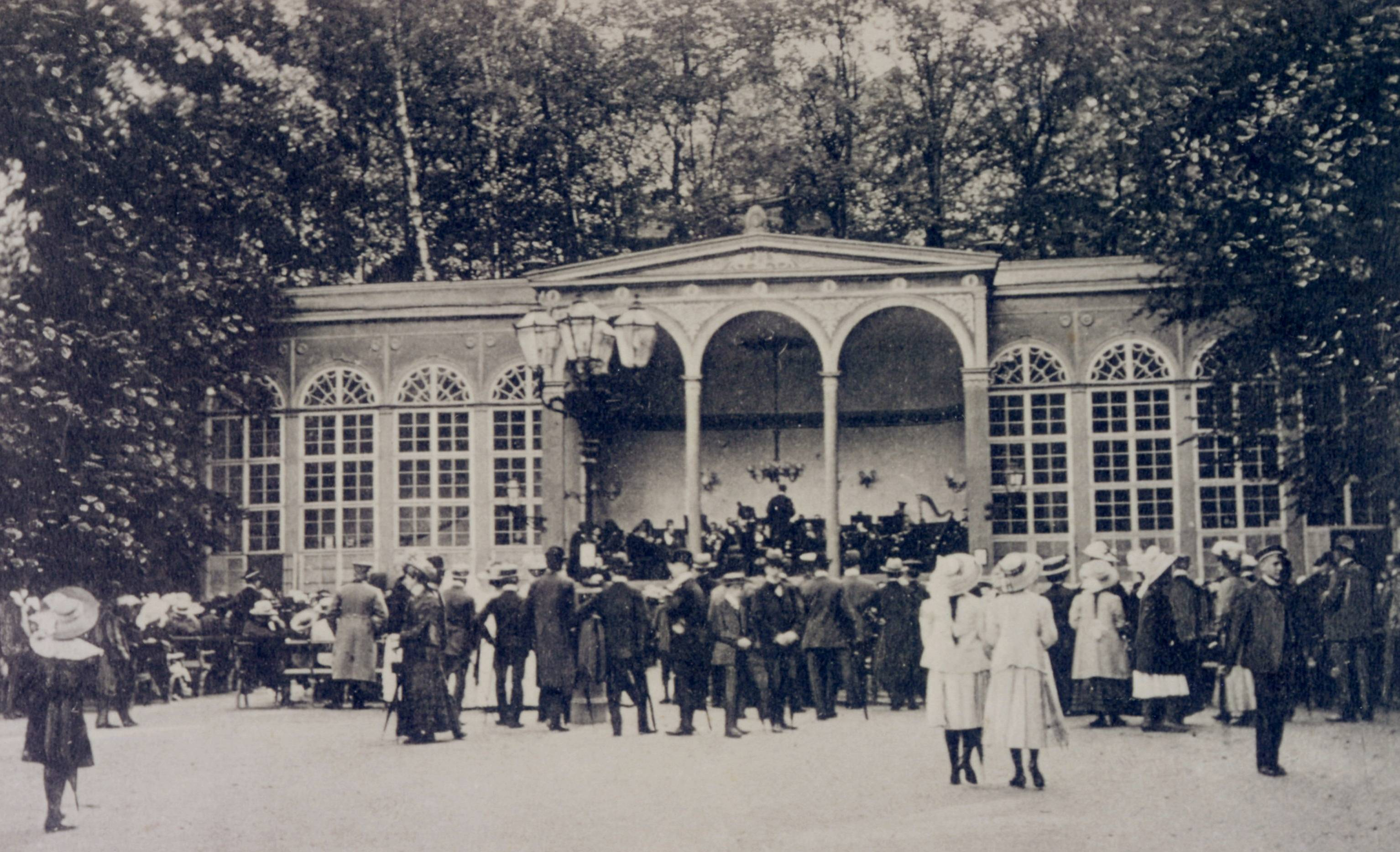 Lohhalle Sondershausen. Concert of Loh-Orchester. At the beginning of the 20. century.